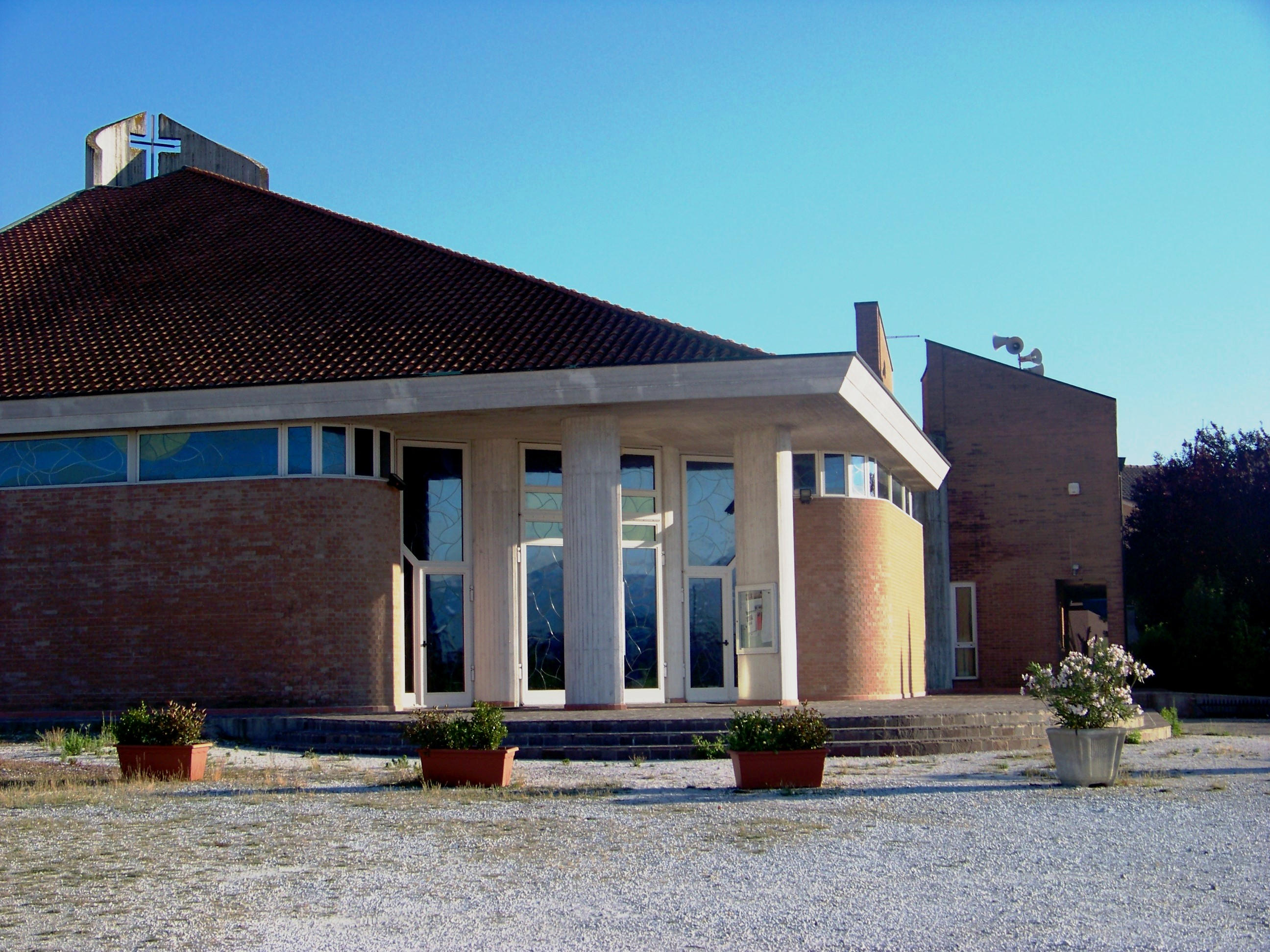 Church of "Santa Maria Madre della Chiesa" in Il Romito.